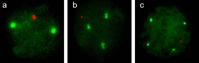 Fluorescence In situ Hybridization (FISH) assay. Nuclei FISH analysis of peripheral lymphocytes reveals a XXY/XXXY/XXXXY mosaic in a, b and c respectively.